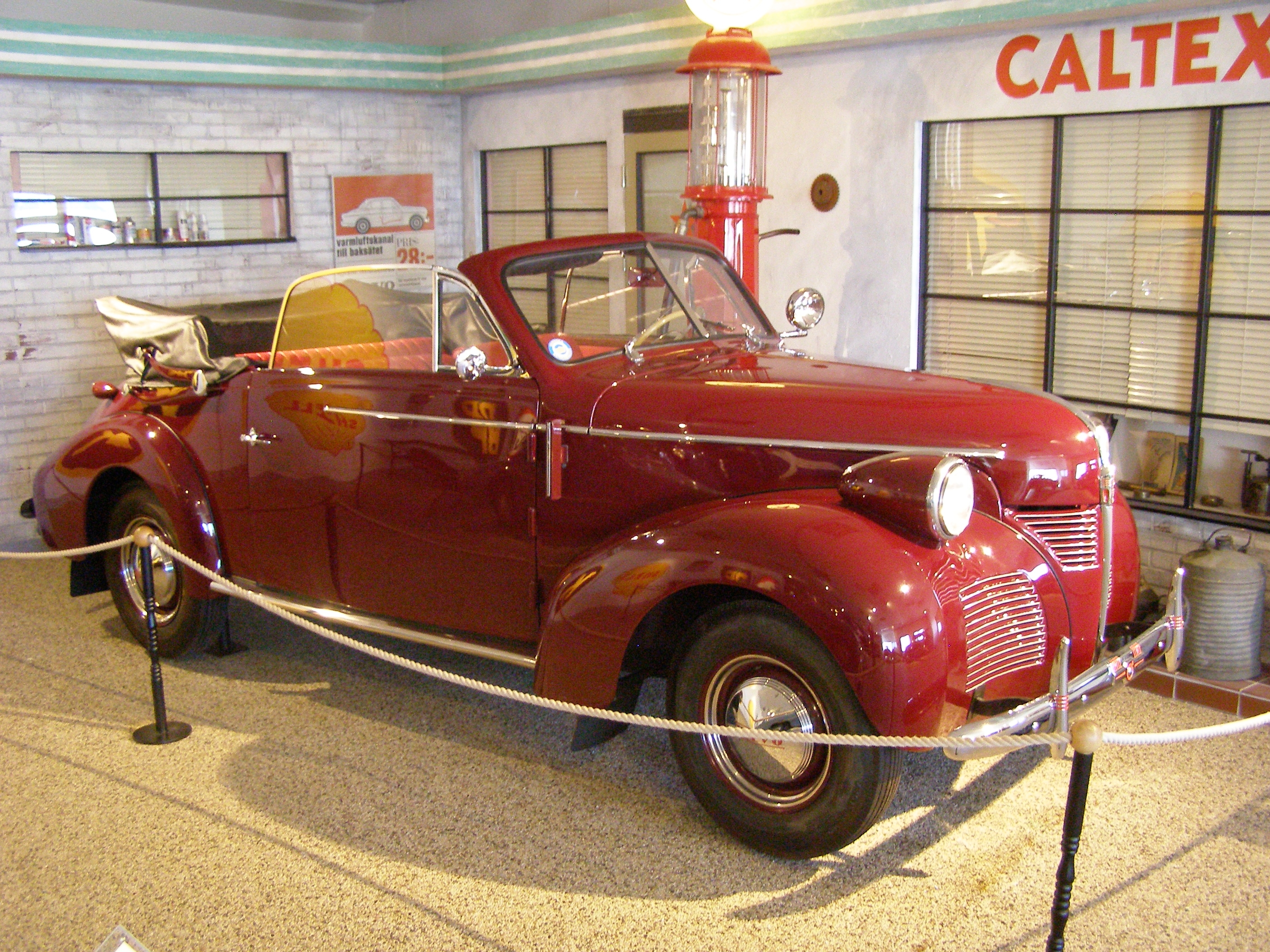 Gothenburg - Volvo Museum - Volvo PV61